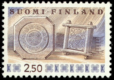 Postage stamp depicting traditional Finnish cheese-making equipment